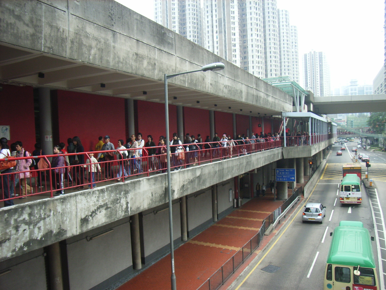 香港地鐵, MTR, 荃灣站 A 出口, Tsuen Wan Station A, 西樓角路, Sai Lau Kok Road, 大河道天橋, Tai Ho Road bridge, 荃灣, Tsuen Wan, 香港, Hong Kong. (Photo created by User:TUmuMATo)。